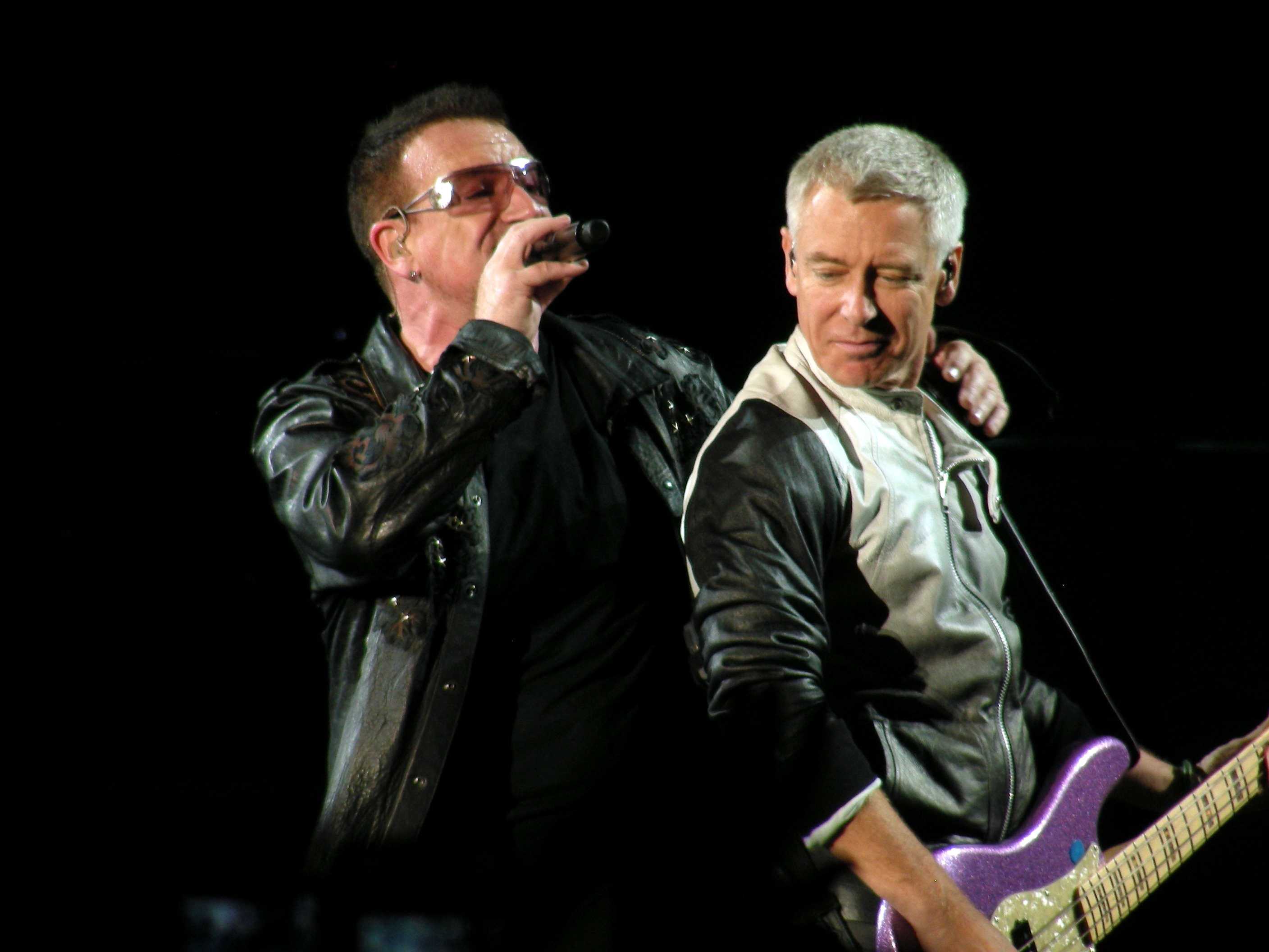 Bono and Adam Clayton during a U2 concert at Scott Stadium on October 1, 2009 on the band's U2 360 Tour